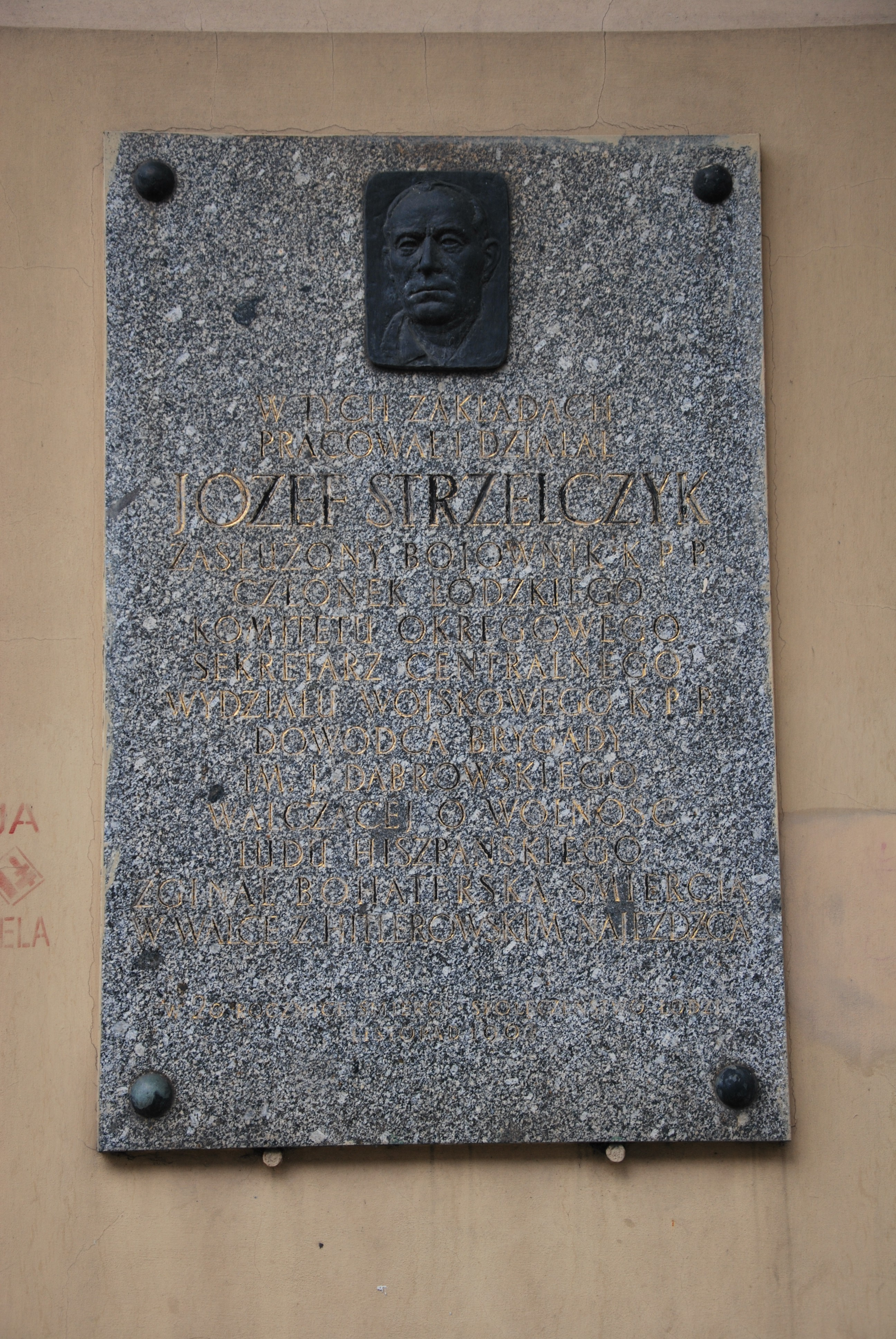 Plaque dedicated to Jóżef Stzrelczyk, polish communist, Łódź Piotrkowska Street